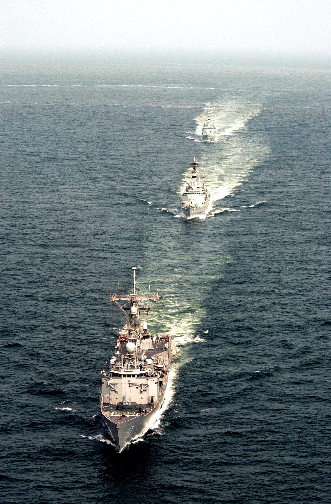 USS Rueben James along with Pakistan Navy Ship (PNS) Shahjahan and PNS Tippi Sultan are currently participating in Exercise Inspired Siren 2002.